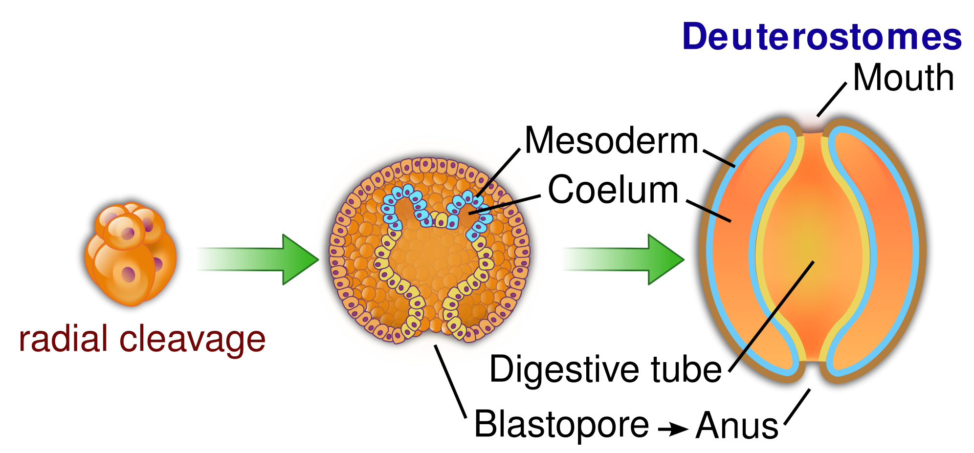 In deuterostomes blastula devisions is called "radial cleavage" because it occurs parallel or perpendicular to the major polar axis.